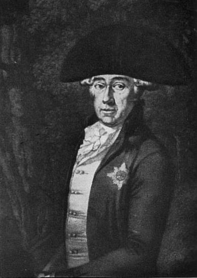 Portrait of Leopold Friedrich Franz of Anhalt Dessau